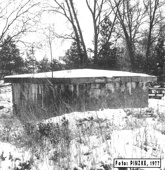 Jessenitz mine shaft in 1977